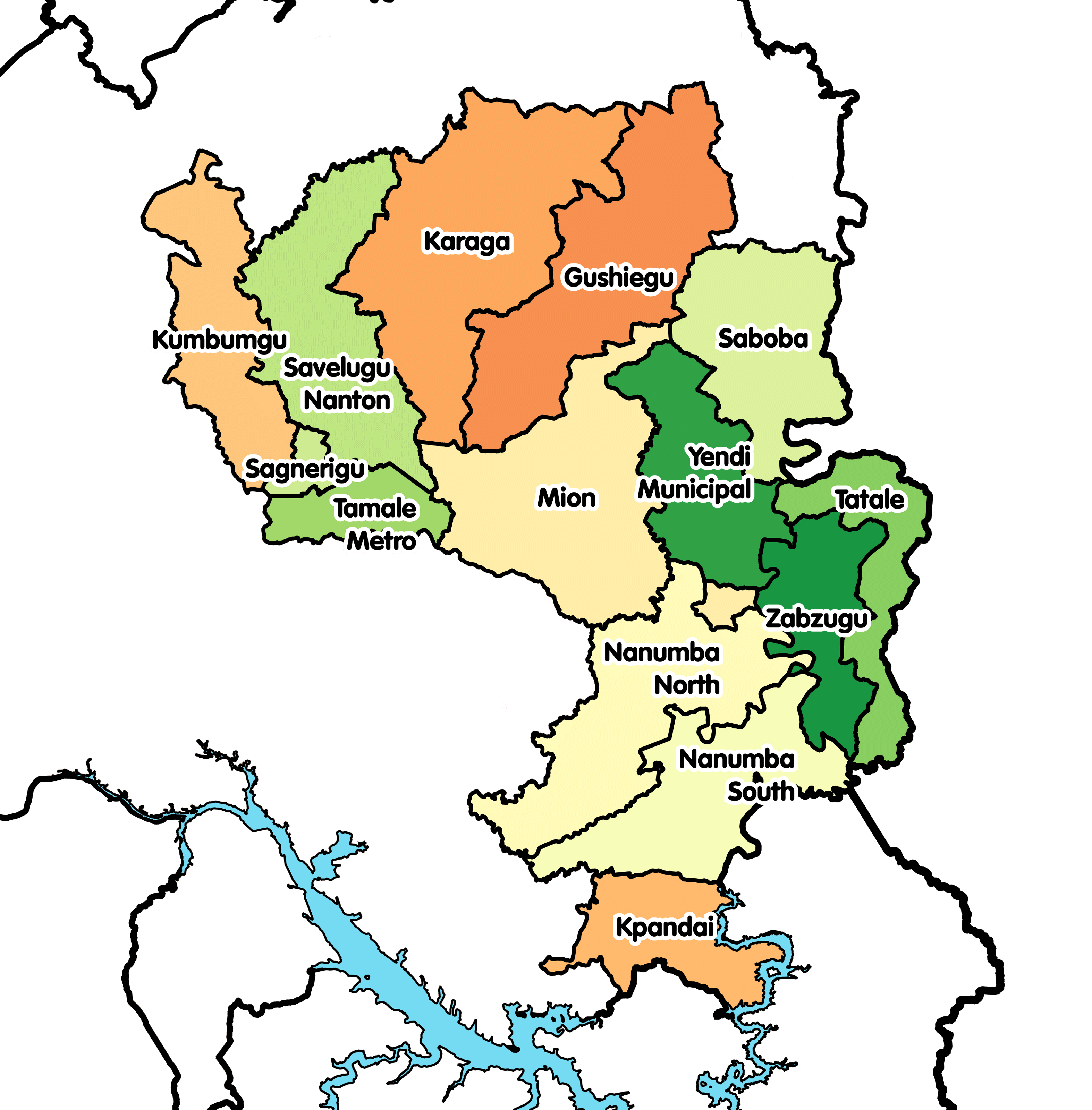 Political map of the 14 Districts of Ghana's Northern Region